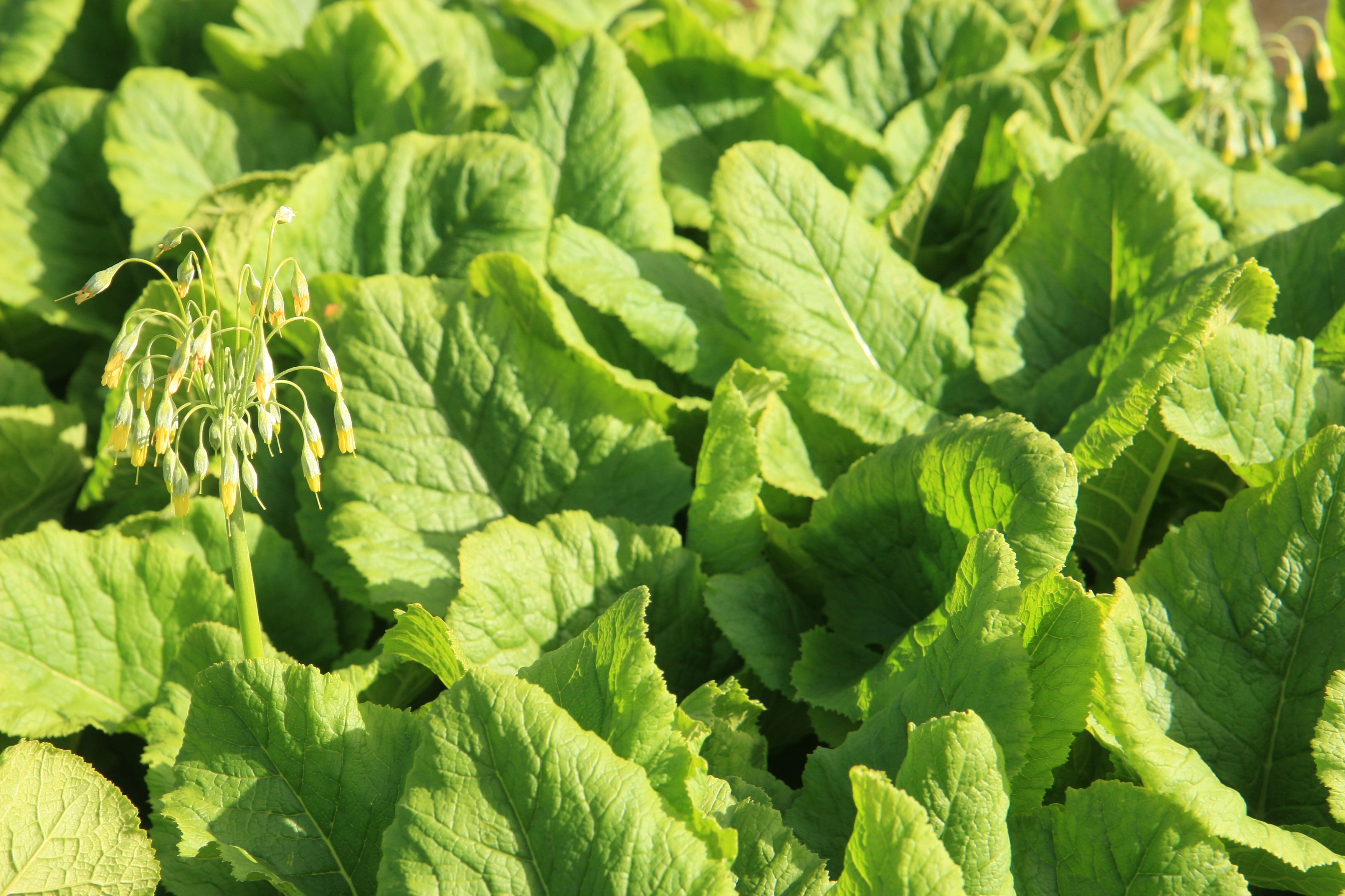 Primula grandis in the Botanical garden of Pass of Lautaret (Hautes-Alpes, 05, France)